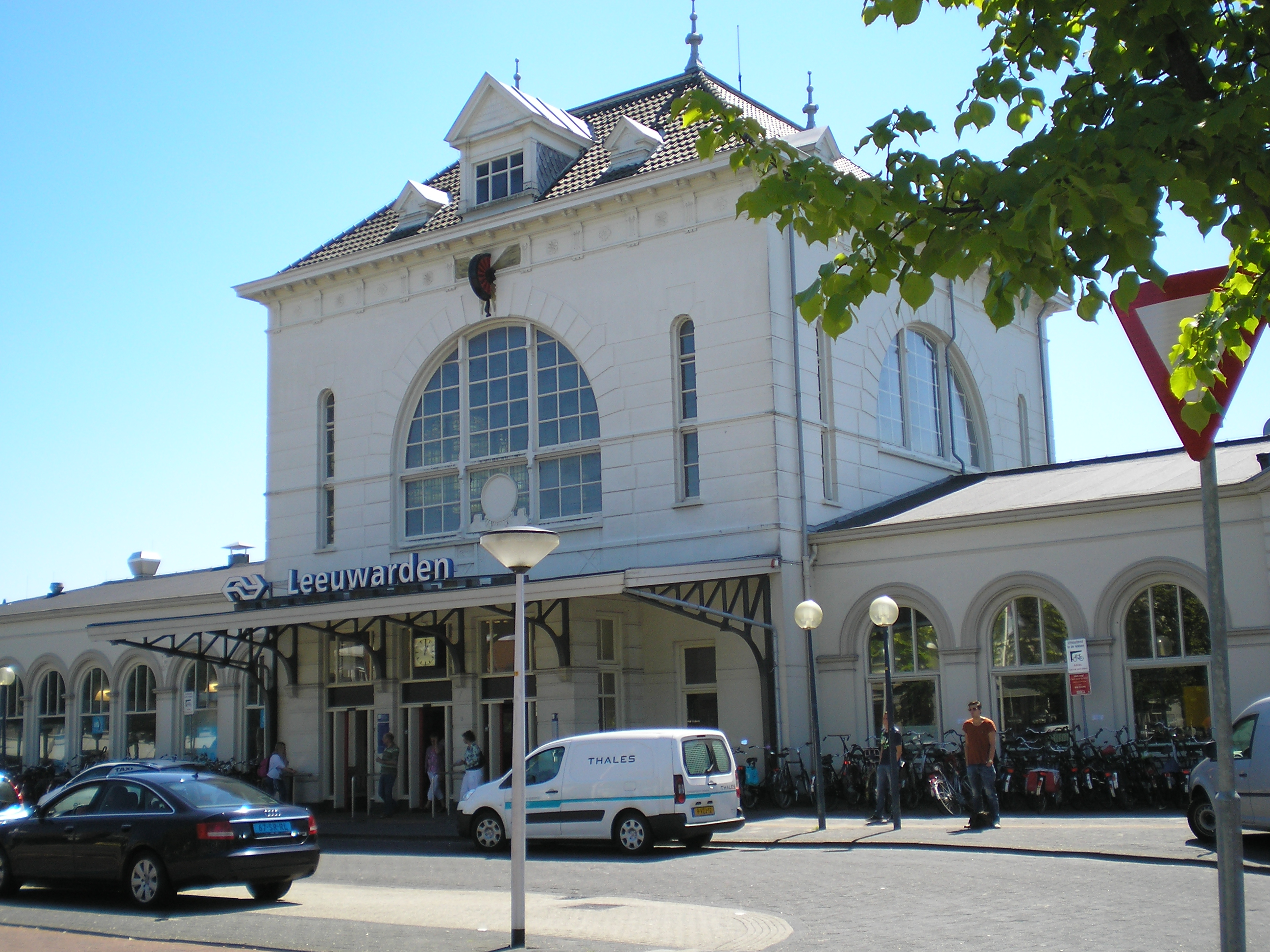 NS Central Station Leeuwarden in the Netherlands